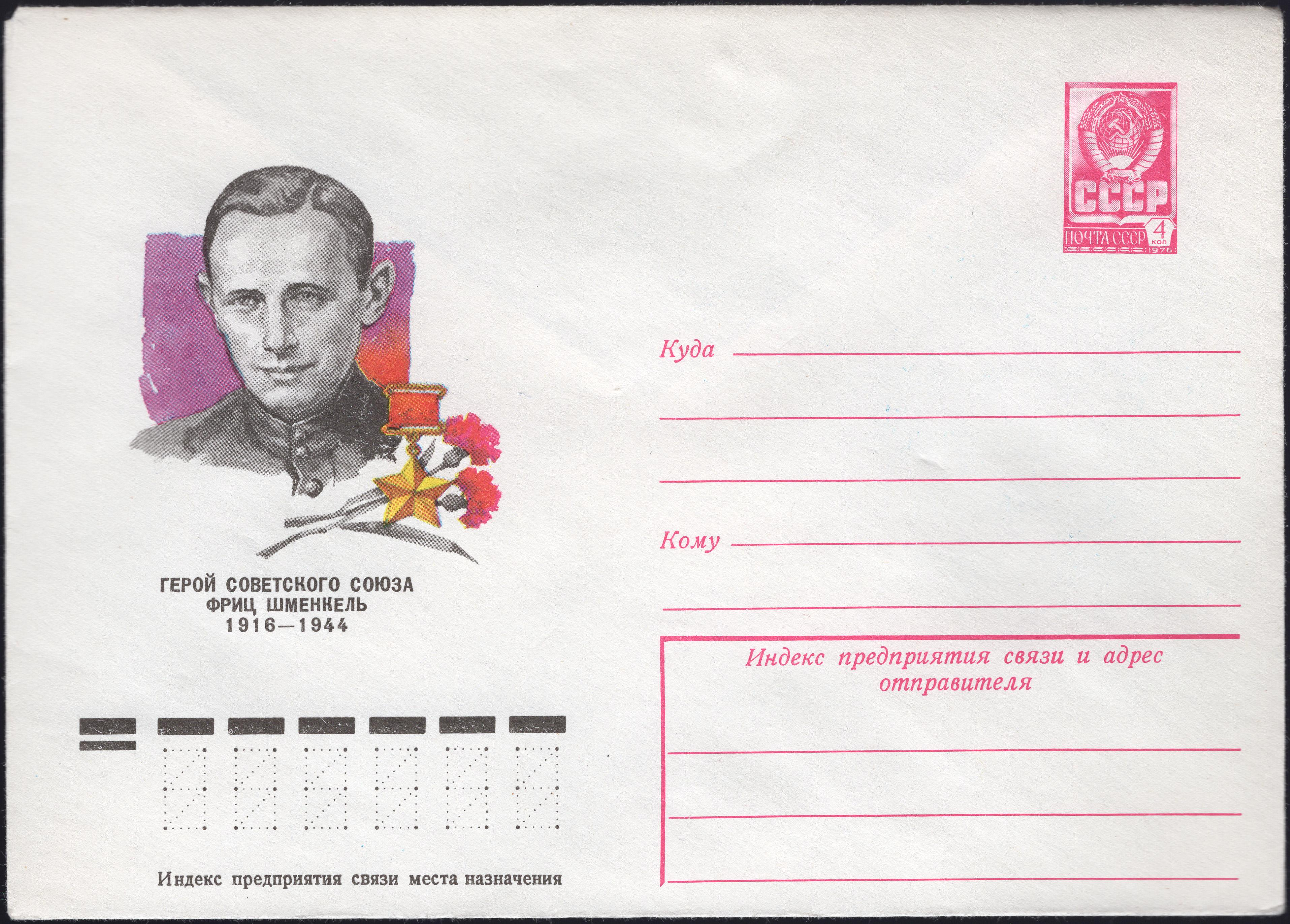 Hero of the Soviet Union Fritz Schmenkel. 1916-1944. Series: Heroes of the Soviet Union. Artist Peter Bendel.